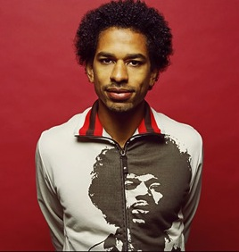 (Copyright Now/Younessi 2006, permission granted by photographers and author)